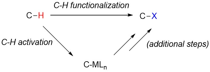 General scheme for C-H functionalization